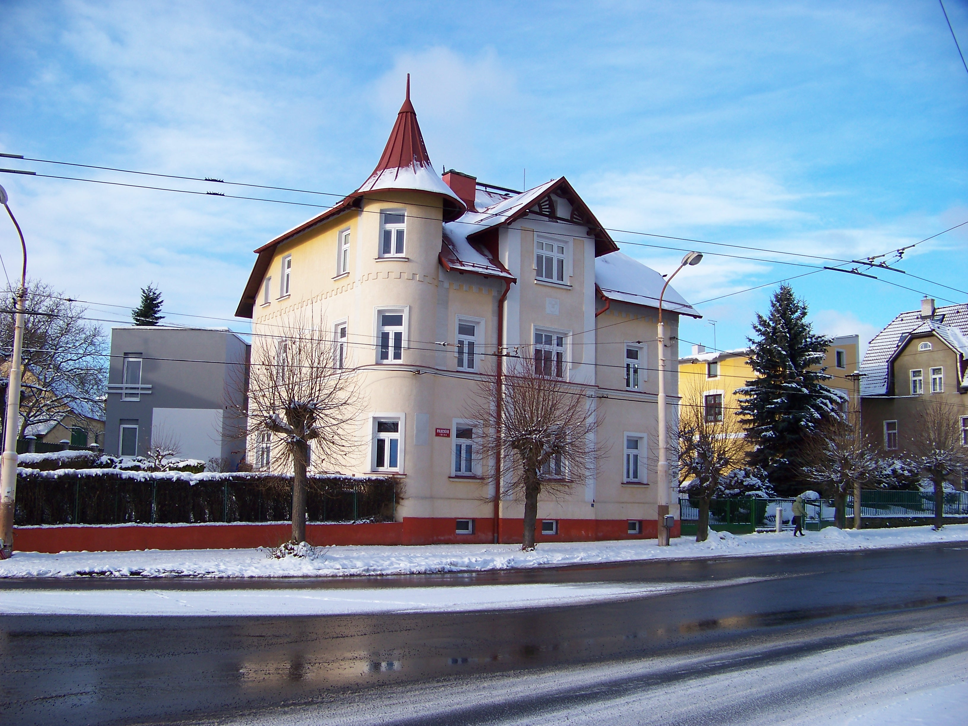 Mariánské Lázně-Úšovice, Cheb District, Karlovy Vary Region, the Czech Republic. Palackého 169/66. - OpenStreetMap(Info)